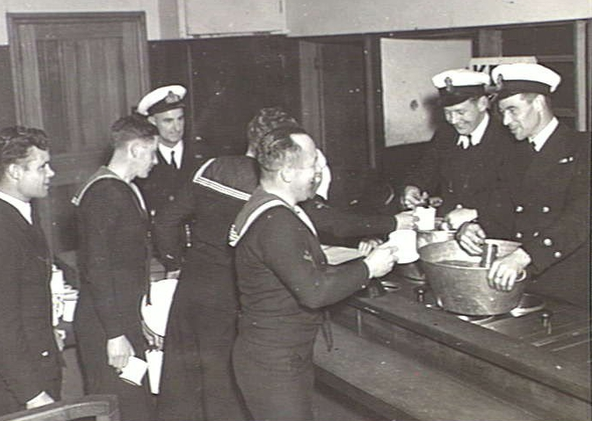 Australian sailors at HMAS Lonsdale, Melbourne, celebrate the end of the Second World War in Europe, 9 May 1945.